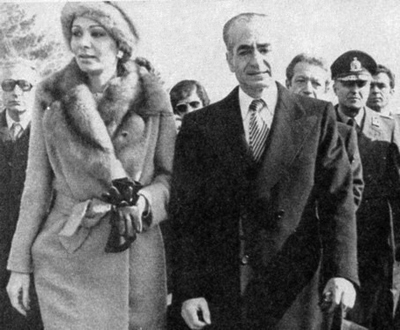 Mohammad Reza Pahlavi and his wife, Farah Pahlavi leaving Iran before 1979 Revolution